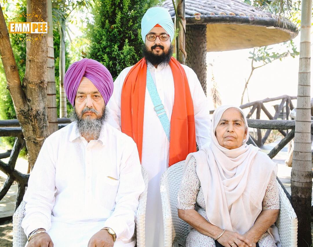 Ranjit Singh Dhadrianwale with his parents.